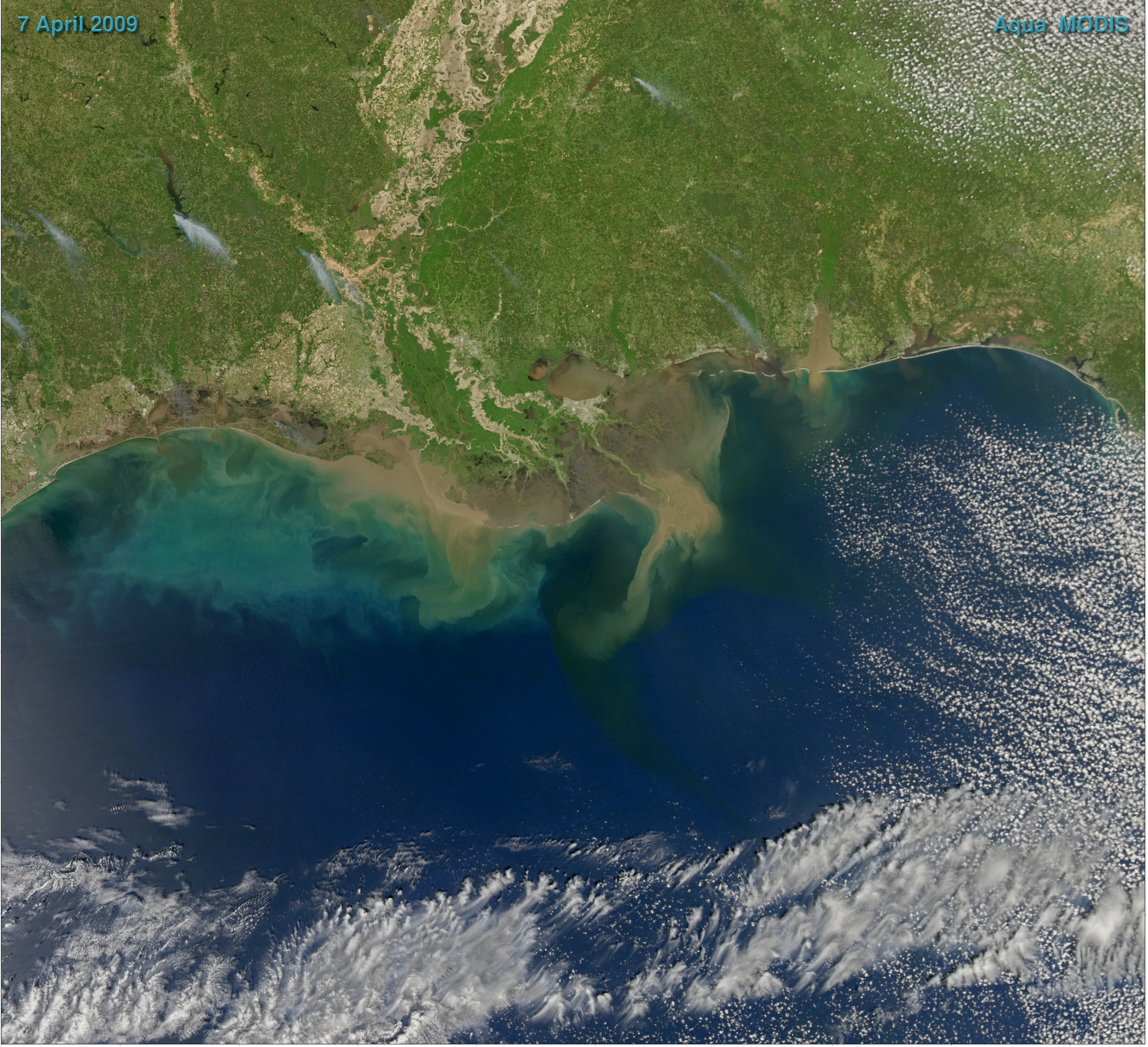 Sediment-laden water pours into the northern Gulf of Mexico from the Atchafalaya River in this photo-like image, taken by the Moderate Resolution Imaging Spectroradiometer (MODIS) on NASA’s Aqua satellite. The springtime river plume is distinct in the sediment-laden coastal water, turning the water the color of land. The tan gradually fades to clouds of green and blue as the sediment disperses.